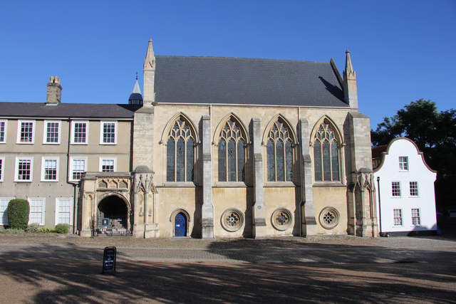 Norwich School Chapel, Norfolk, seen from the south. Built early in the 14th century as Carnary Chapel.